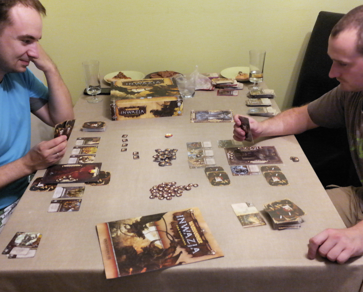 Warhammer: Invasion - the card game.